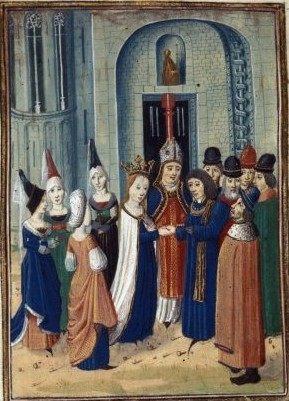 Marriage of Philipe d'Artois to Marie, daughter of the Duc de Berry. Chronicles of Jean Froissart, Vol. IV. British Library, Harleian MS 4380 f. 6